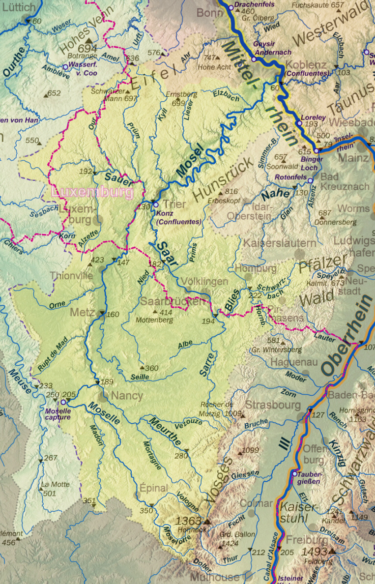 Rhine course and river system, place names in the countries' languages